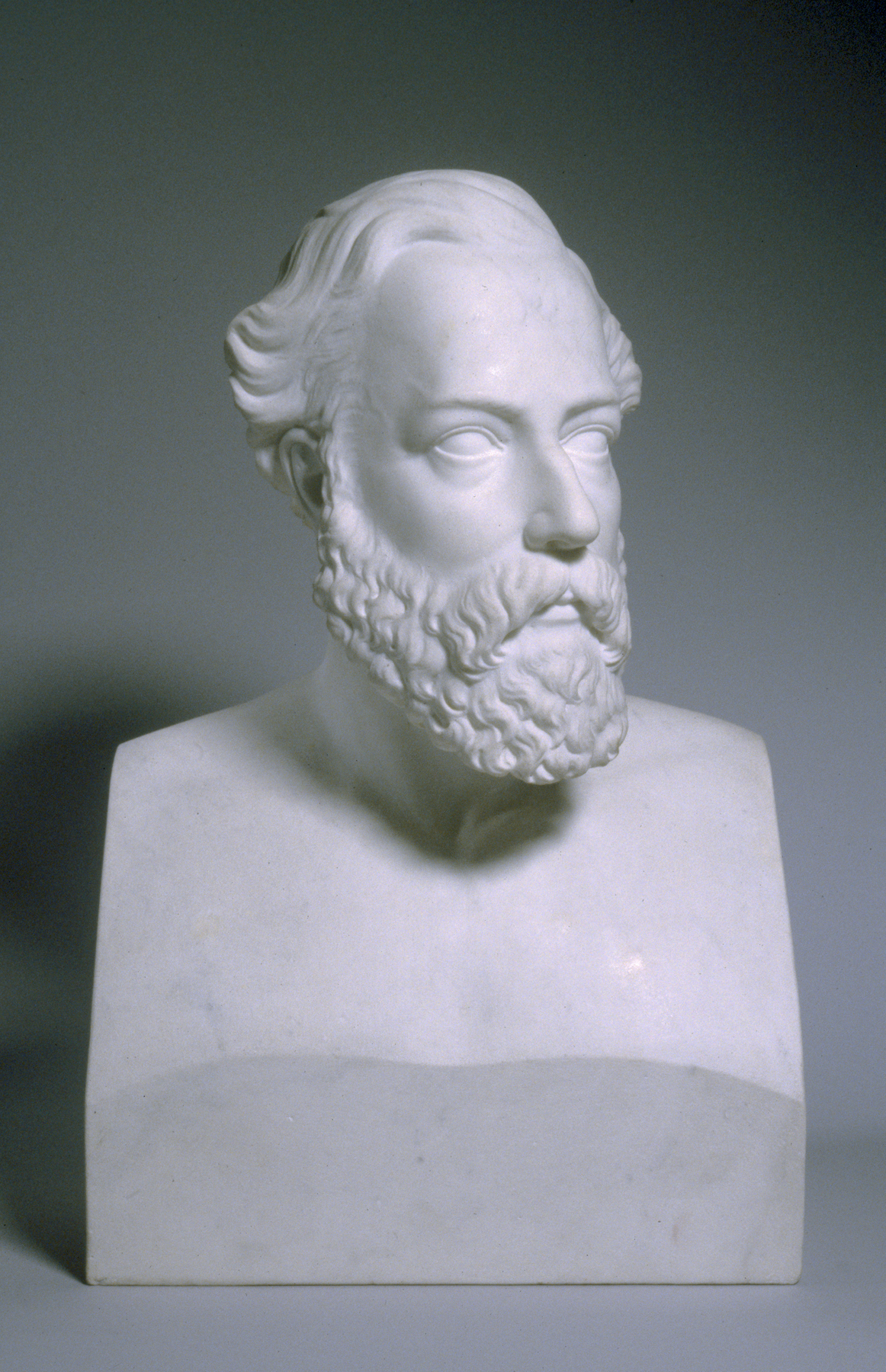 Edmonia Lewis, the first African-American sculptor to receive national recognition, was born in the village of Greenbush, near Albany, New York. Her father was Haitian, and her mother was partly Native American, of the Chippewa tribe, and partly African American. Lewis attended Oberlin College in Ohio and in 1863 moved to Boston, where she received instruction from the sculptor Edward Brackett. Two years later, she left the United States for Rome. She adopted the prevailing neoclassical style of sculpture, as seen in this nude bust, but softened it with a degree of naturalism, as reflected in the rendering of the facial features. Most sculptors relied on the local craftsmen actually to carve their works, but Lewis, sensitive to speculation that she was not responsible for her sculptures, carved them personally. She had a successful career, specializing in biblical subjects, themes recalling her Native American and African ancestry, and portrait busts. Her sculpture "The Death of Cleopatra" was favorably received when it was shown at the Philadelphia Centennial Exhibition in 1876. Dioclesian Lewis (1823-1886) trained in medicine at Harvard College's medical department and practiced briefly in Buffalo, New York. He is remembered chiefly for lectures and publications dealing with preventive medicine and physical hygiene, as well as for his support of liberal causes, including the women's temperance movement. In 1865, he opened in Lexington, Massachusetts, the Training School for Teachers of the New Gymnastics. His faculty members included Theodore Dwight Weld, the noted abolitionist, and Catherine Beecher, sister of Harriet Beecher Stowe, author of the novel that stirred abolitionist fervor, Uncle Tom's Cabin (1852).